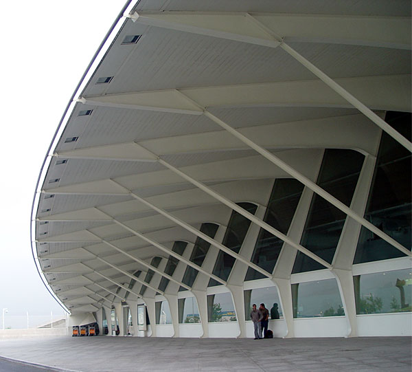 Wing of the Bilbao Airport, Spain.Aeropuerto de La Paloma, Bilbao